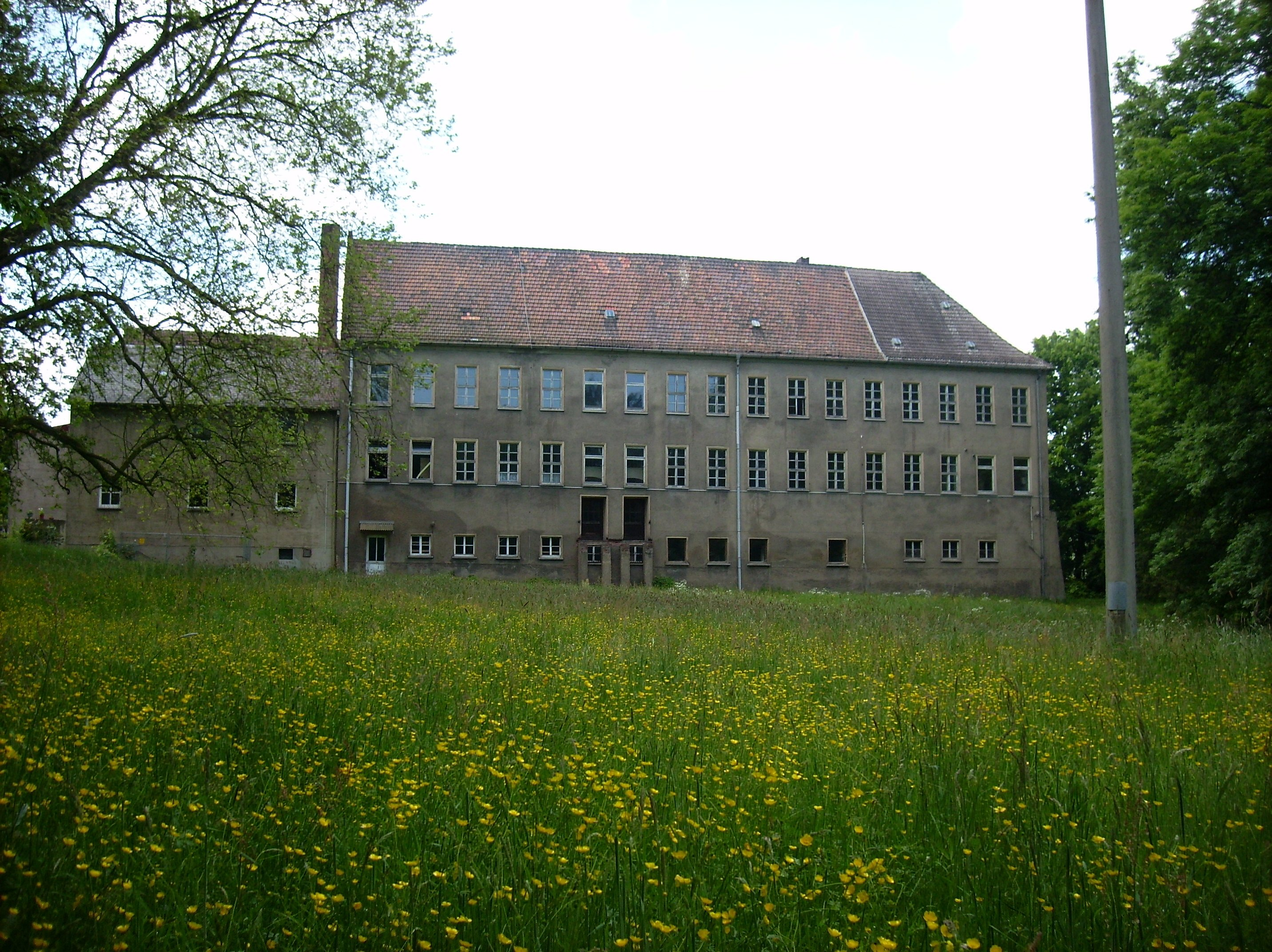 Ehrenhain castle (Nobitz, district of Altenburger Land, Thuringia)